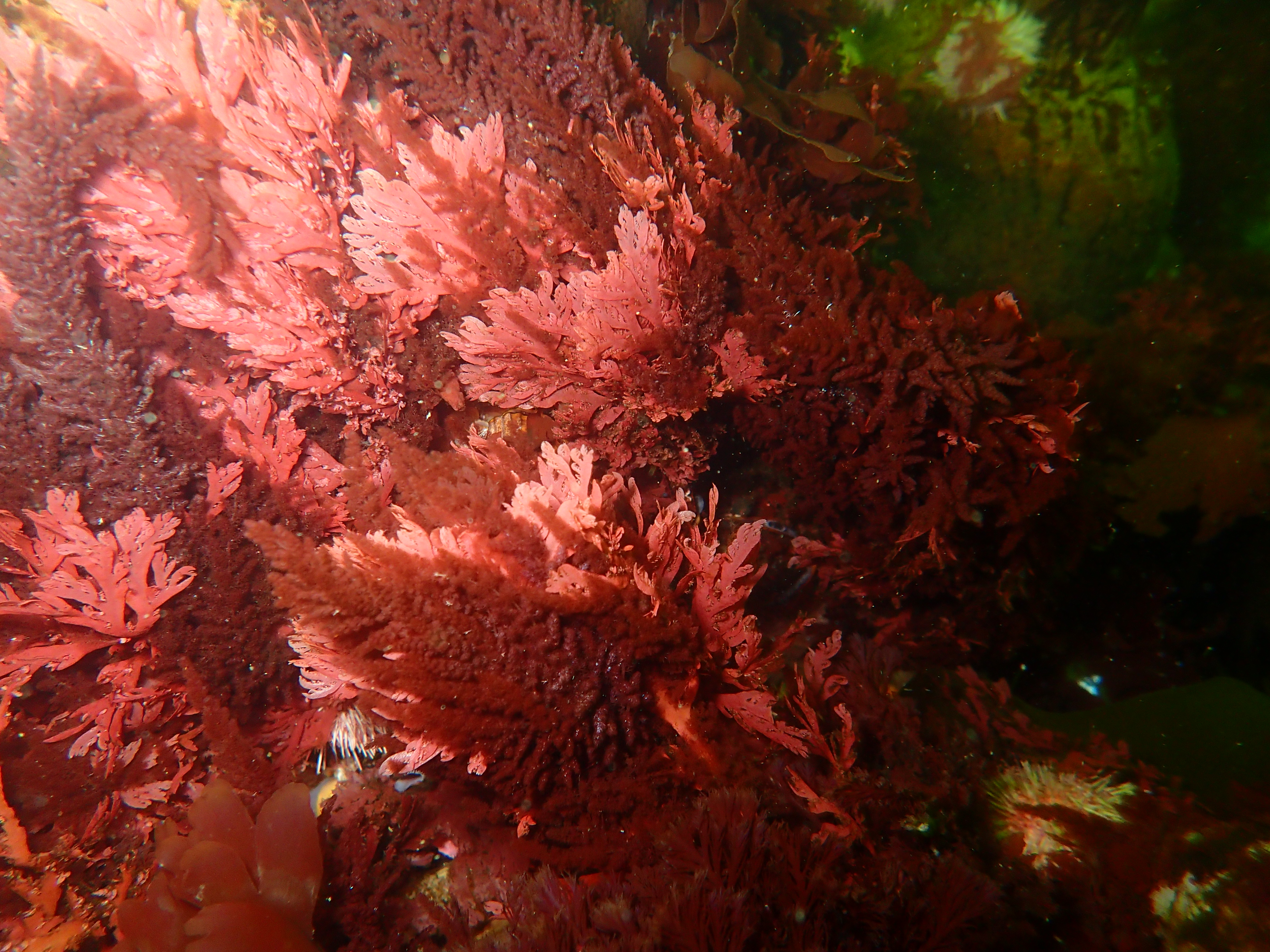 Red seaweeds at Rachel's Reef dive site